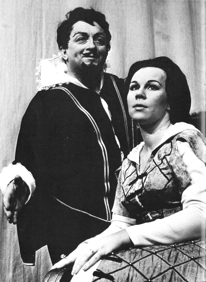 Photograph of Veikko Tyrväinen as Ottavio and Taru Valjakka as Donna Anna in a production of Don Giovanni in Helsinki.